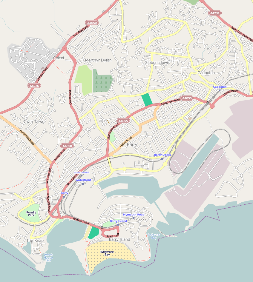 Map of Barry, Vale of Glamorgan Geographic limits of the map: N: 51.4253° S: 51.3845° W: -3.2996° E: -3.241°